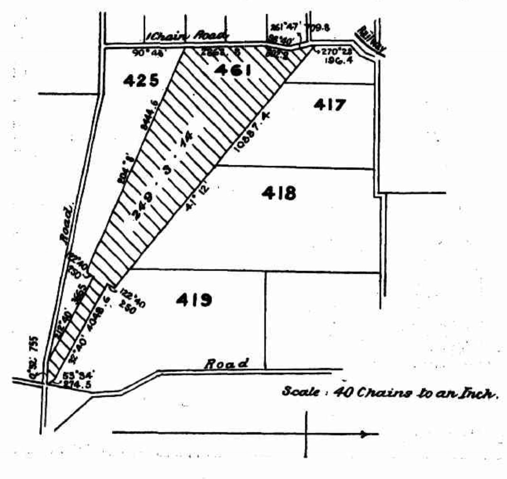 Map of Lowood Rifle Range, 1904. The railway shown in the north-east is the former Brisbane Valley railway line. The roads on the boundaries of the map are unnamed on this map but are Clarendon Road (north), Wyatts Road (west), Rifle Range Road (south west), Forest Hill Fernvale Road (south) and Reinbotts Road (east). Despite what appears to be a compass in the lower part of the map suggesting that north is to the right, the map is in fact oriented so that north is at the top (as normal). The parcel of land of the rifle range (hashed in the map) is Plan CC58 Lot 461.